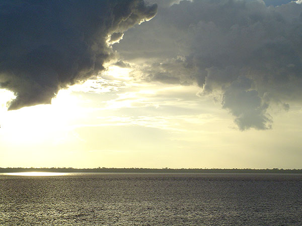 Guamá River (a branch of the Amazon river discharging into the mouth of the Amazon at the city of Belém)